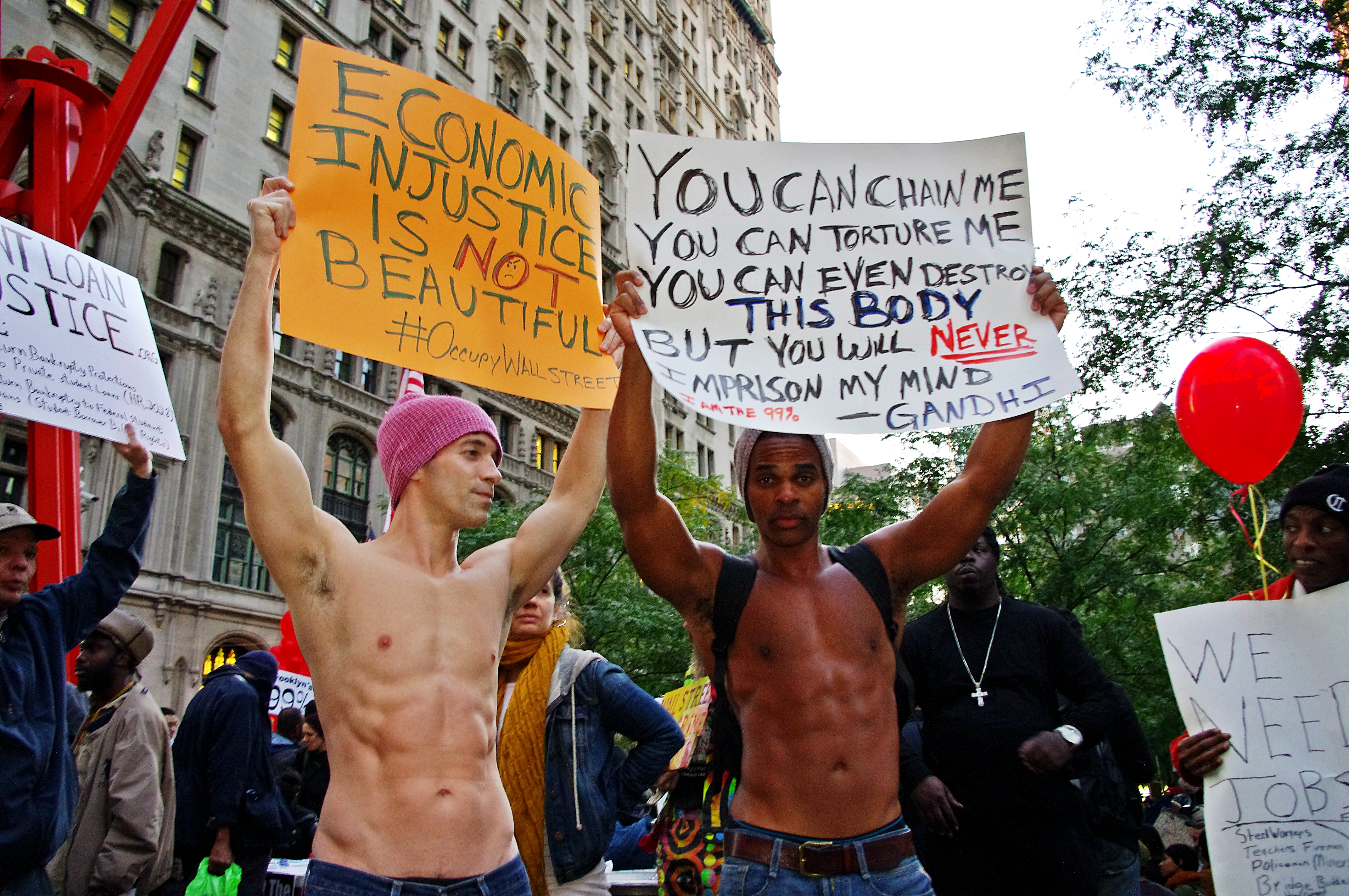 Day 40 of Occupy Wall Street in New York, Tuesday, October 25. Photos of protesters and life in Liberty Plaza.